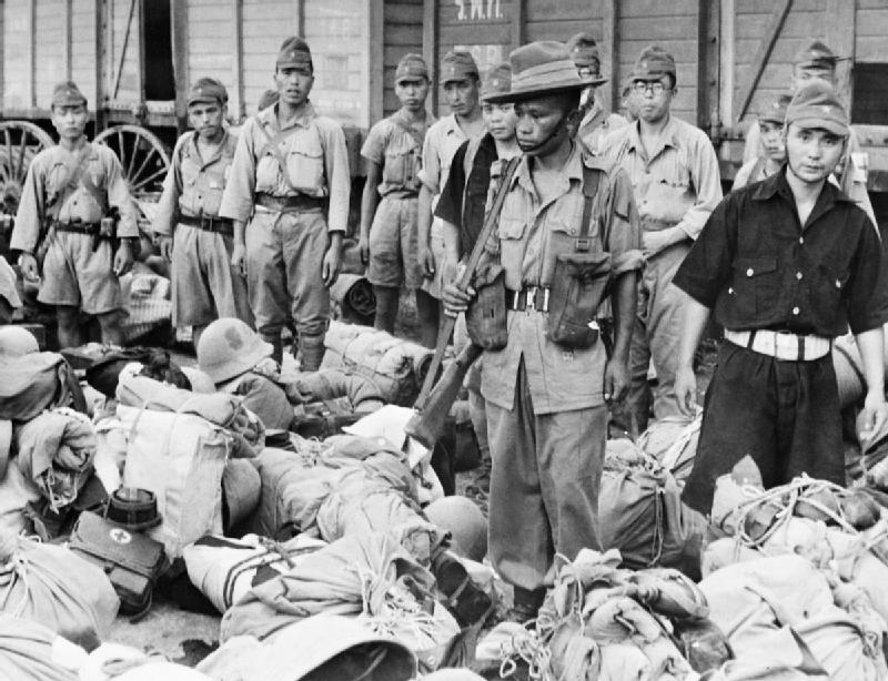 A Gurkha soldier guards Japanese prisoners on their way to POW camps outside Bangkok, September 1945. One of the Gurkha sentries posted to oversee disarmed Japanese soldiers as they wait to board trains that will carry them to prisoner of war camps outside the city of Bangkok.